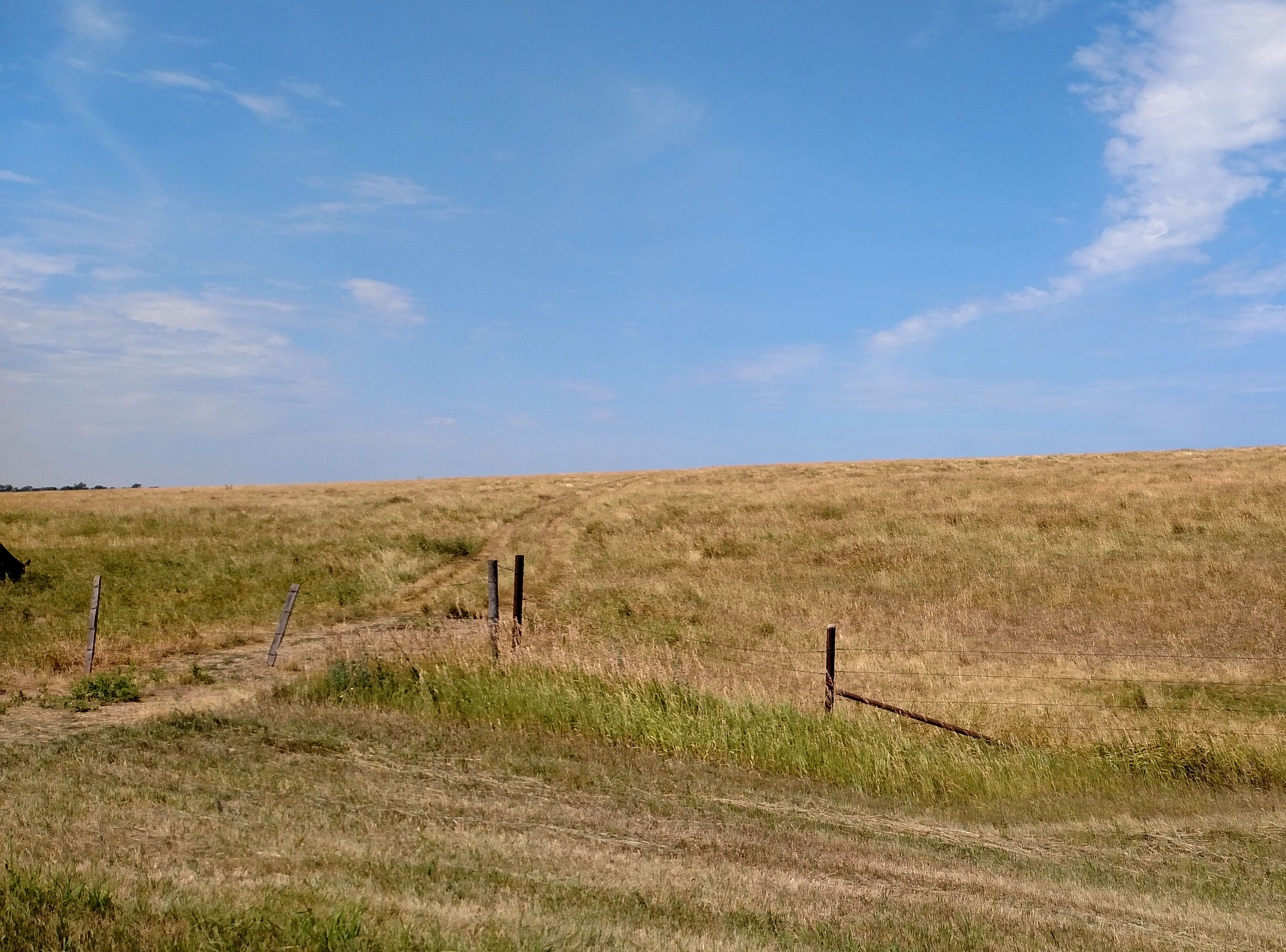 Location of the Almanzo Wilder and Laura Ingalls Wilder homestead and farm where their daughter, Rose Wilder Lane, was born; located next to SD Highway 25, just north of DeSmet, SD. The small home in which Lane was born is no longer standing.